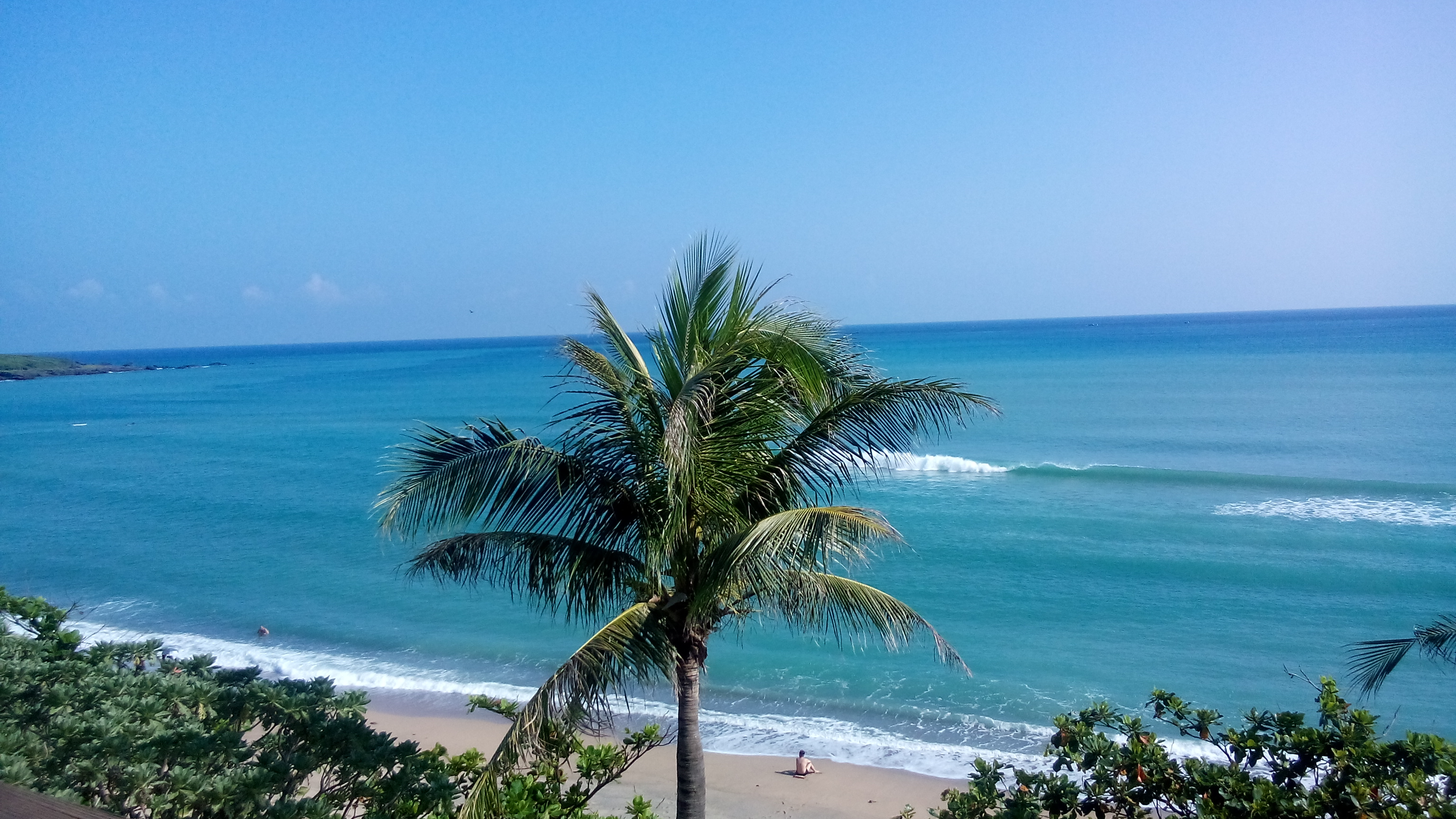 Bashi Channel view from Chateau Beach Resort Kenting